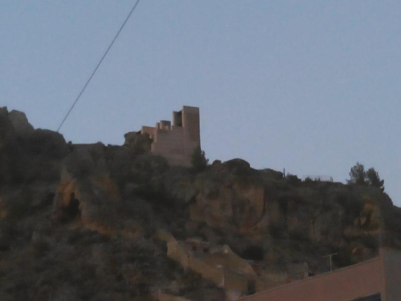 Side view of Blanca Castle, Region of Murcia.